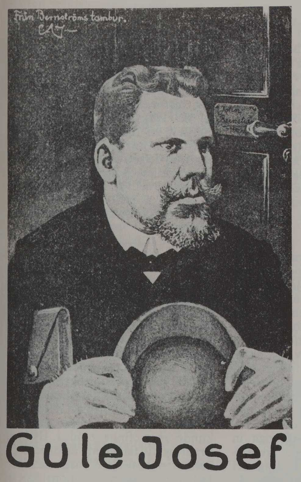 Josef Nilsson (1876-1930)